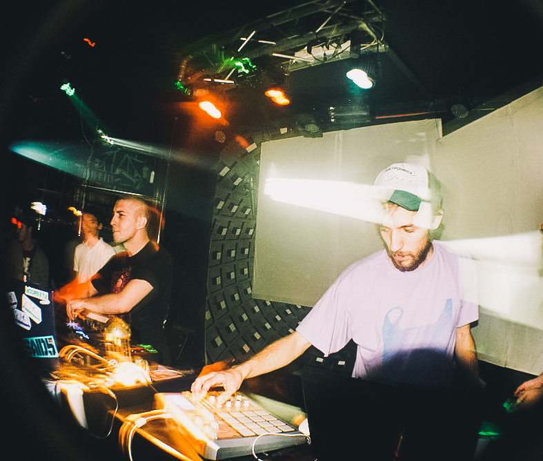 Fa11out live Audio and Video performance in Club Palma 2009